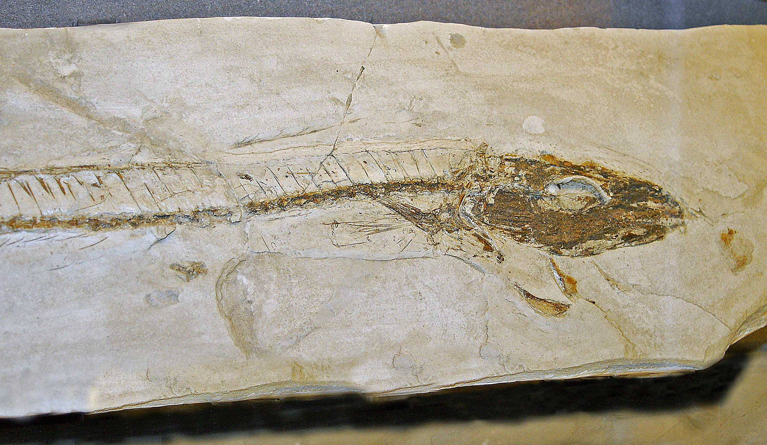 Fossil of Lepidopus proargenteus on display at the Museo Archeologico e di Scienze Naturali F. Eusebio - Alba, Italy.